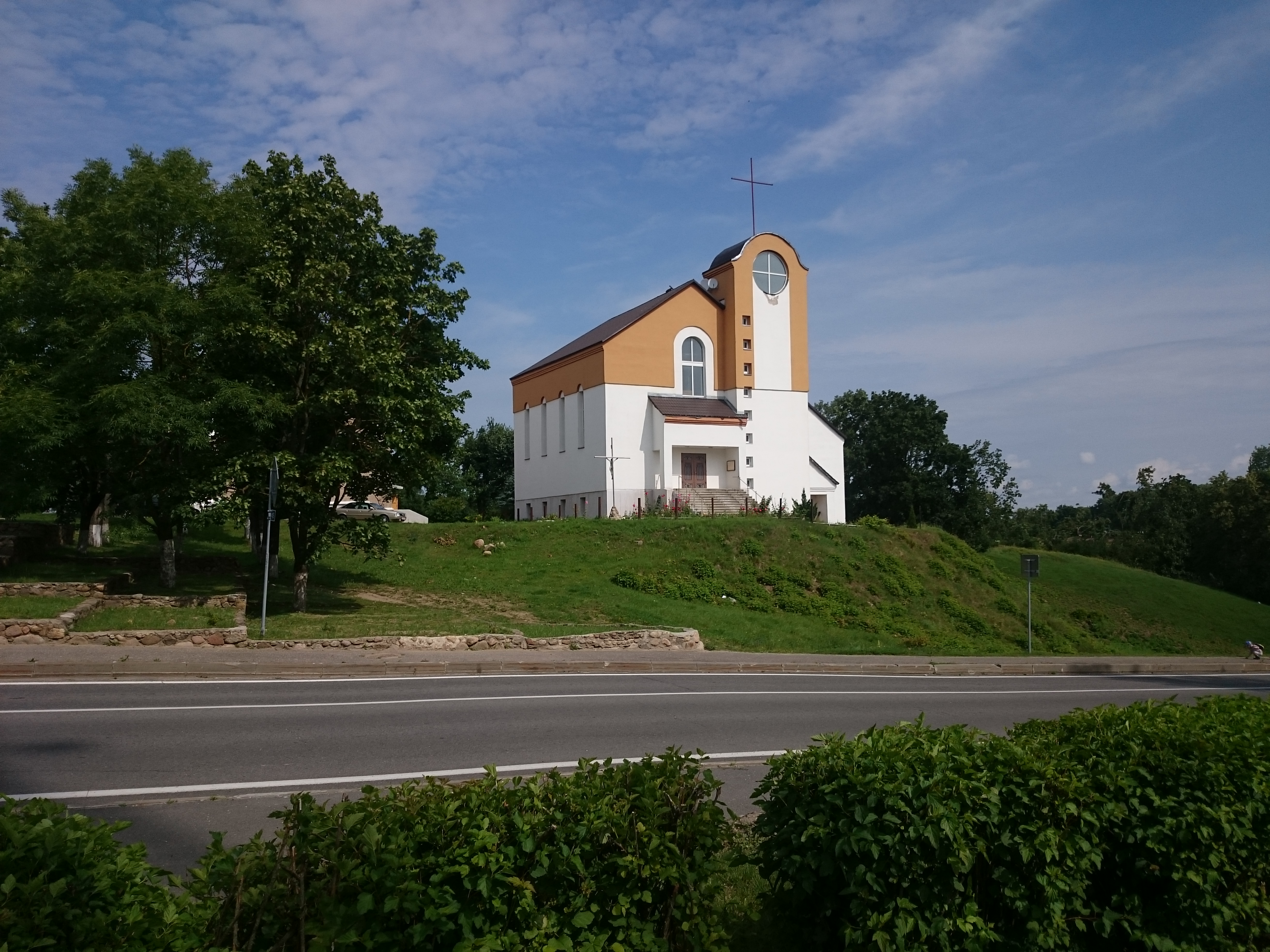 St. Paul and Peter Parish